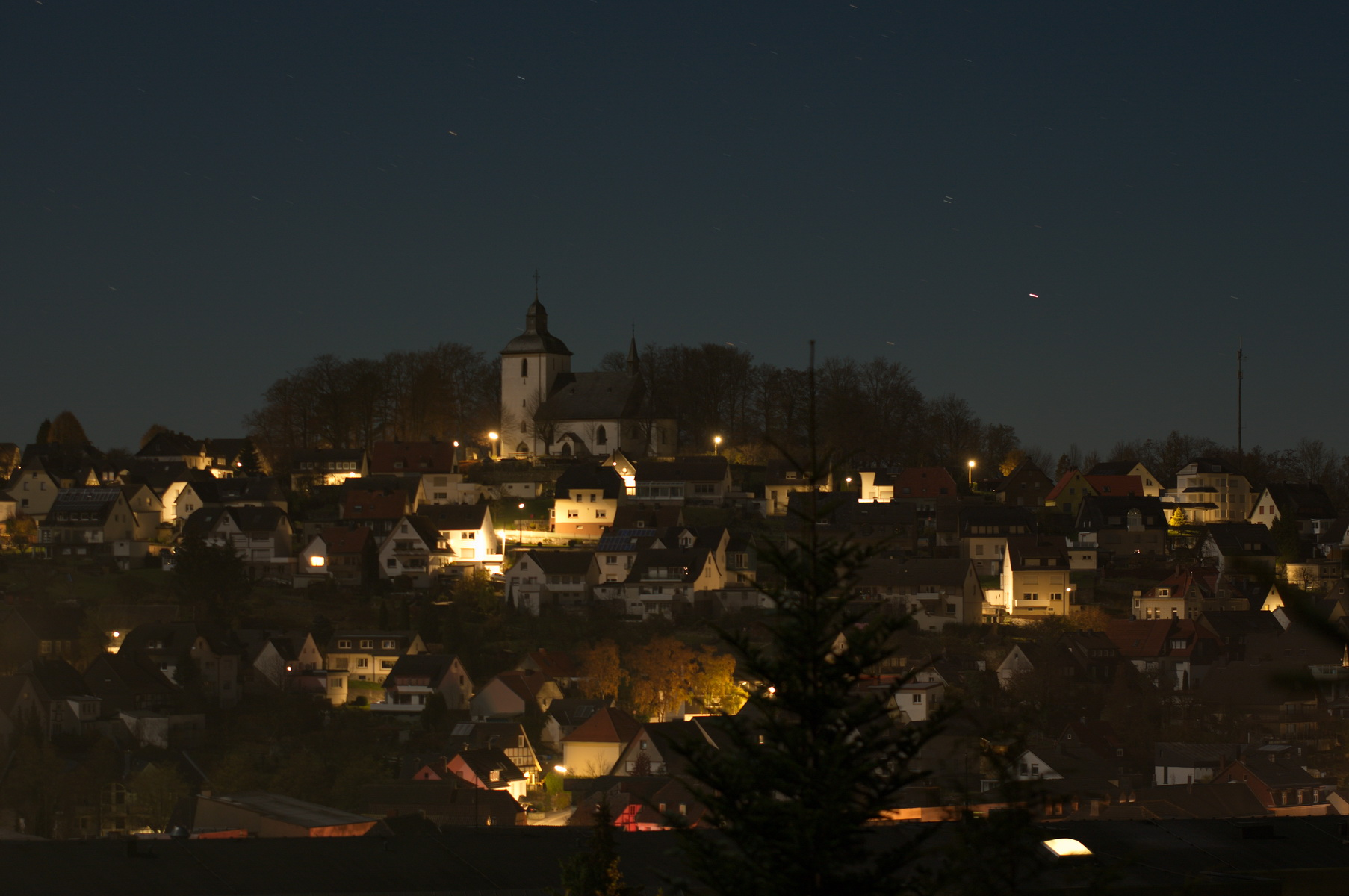 The "Old Church" of Warstein in the moonlight at midnight